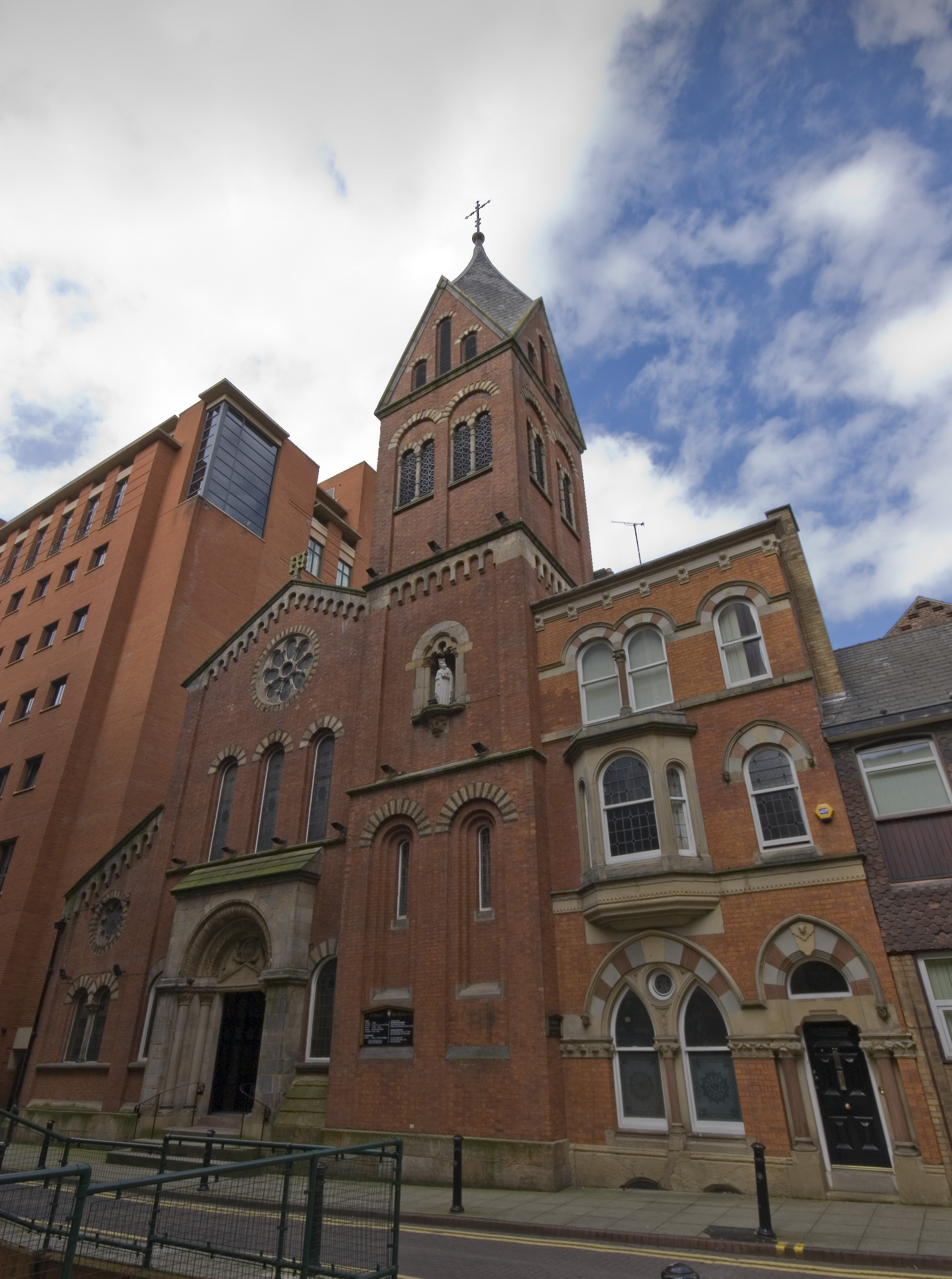 St Mary’s Roman Catholic Church on Mulberry Street in Manchester, England